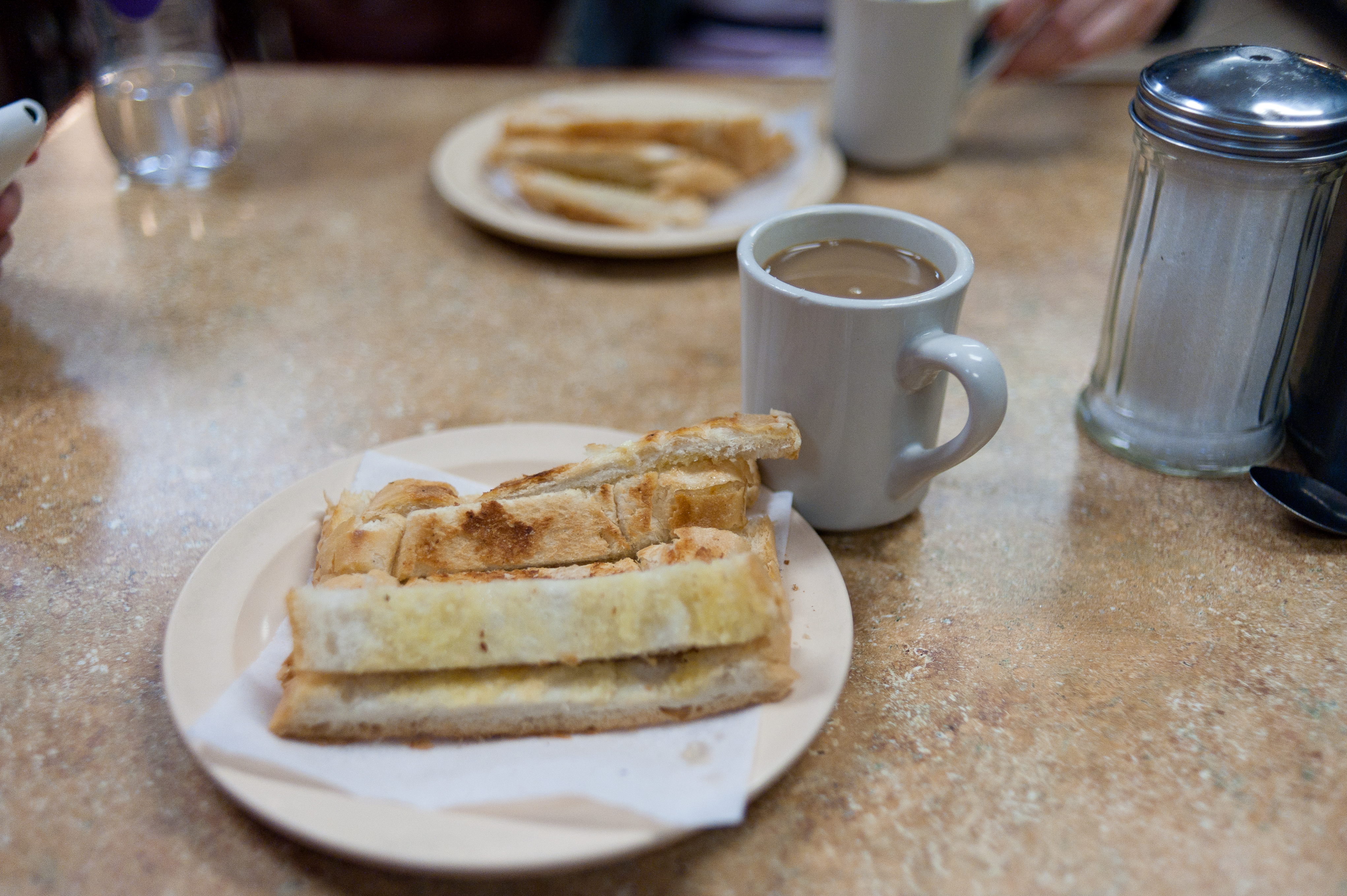 Café con leche (coffee with milk) and tostadas (toasts)